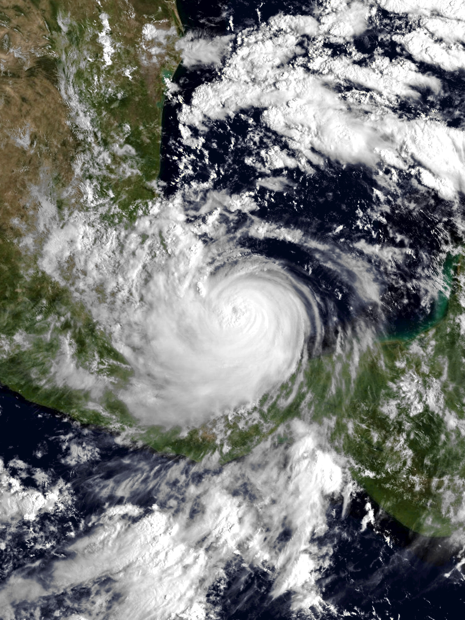 The GVAR imager instrument onboard the NOAA GOES-13 satellite captured this visible image of Hurricane Karl on September 17, 2010, at 14:15 UTC. At the time this image was captured, Karl was a Category 3 hurricane with maximum sustained wind speeds of 125 mph (205 km/h), and its minimum central pressure was 956 mb.